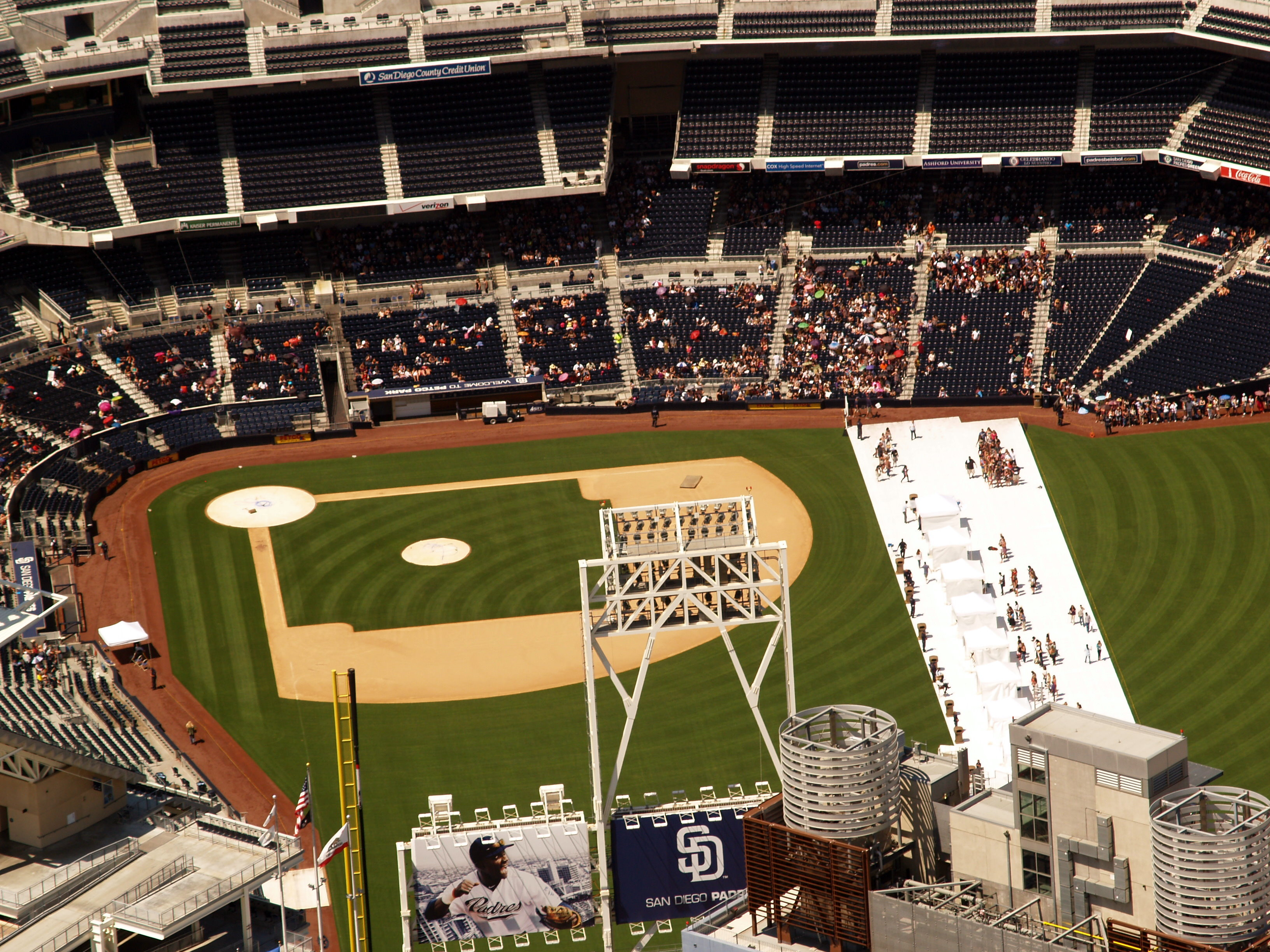 Photo of Petco Park with American Idol auditions. Taken from a helicopter by Phil Konstantin. Please acknowledge "Phil Konstantin" as the creator of this photograph.